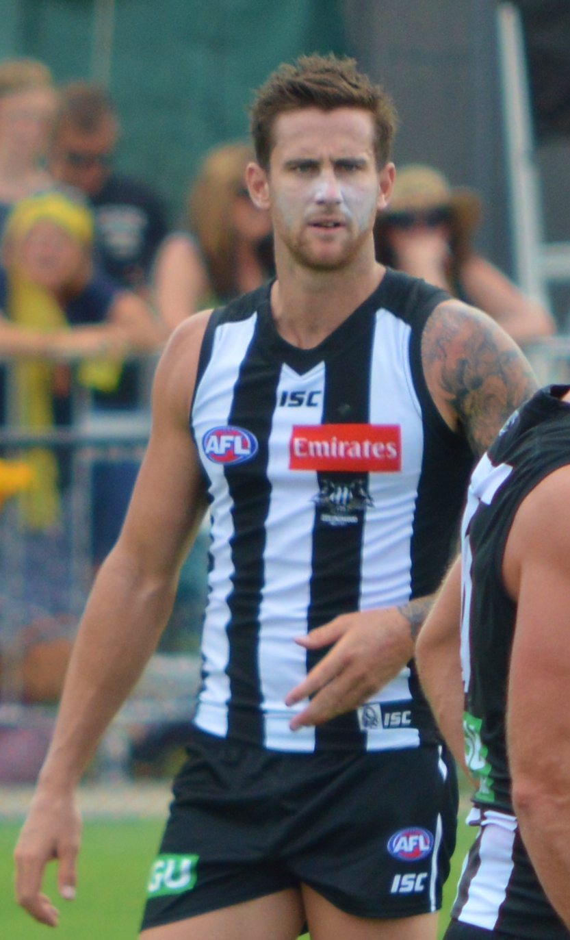 Jeremy Howe during a pre-season match in March 2017